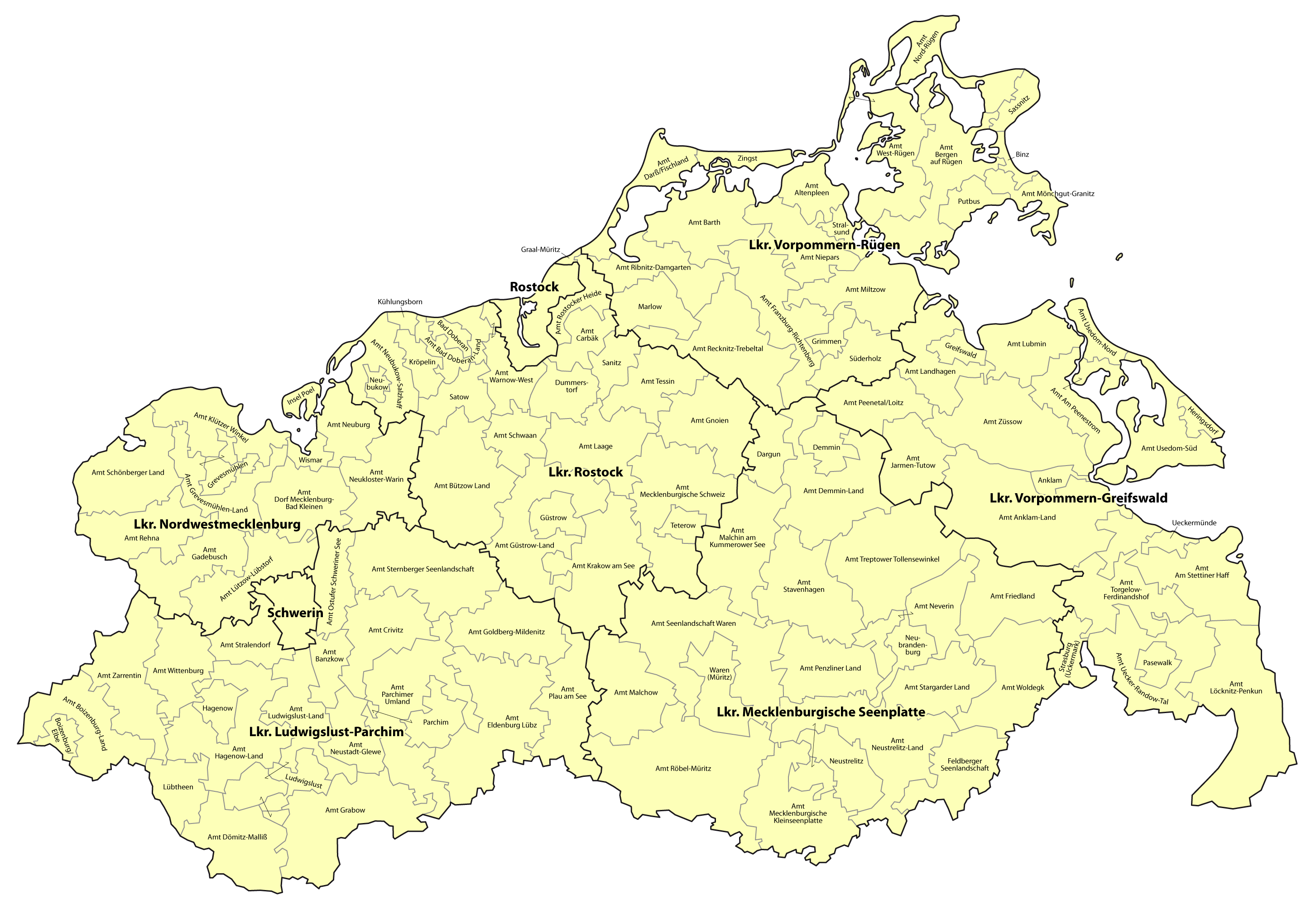 The map shows the 2 urban districts and 6 districts (bold borders) of Mecklenburg-Vorpommern as well as the municipalities (light borders) that constitute the districts